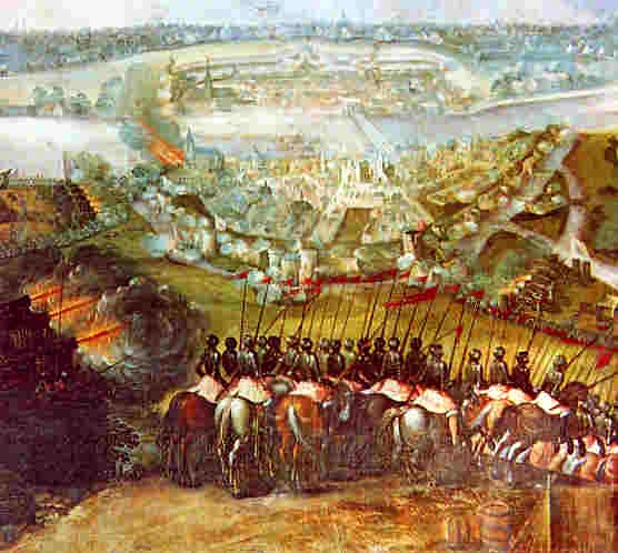 Spanish troops storming the city of Maastricht.